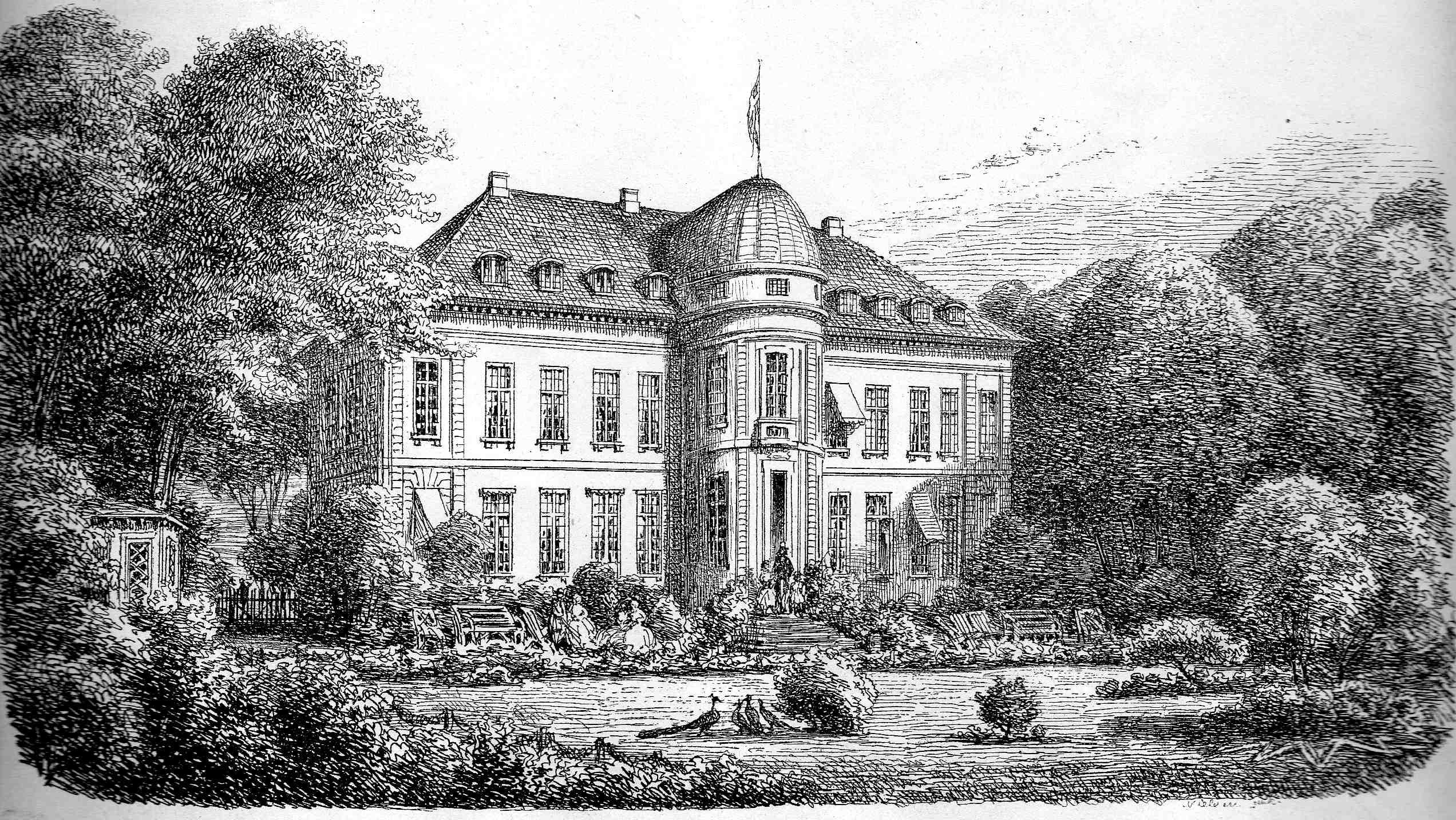 Scanned by myself from the old book in 2007. The book was graciously lent to me by Det Kongelige Garnisonsbibliotek.